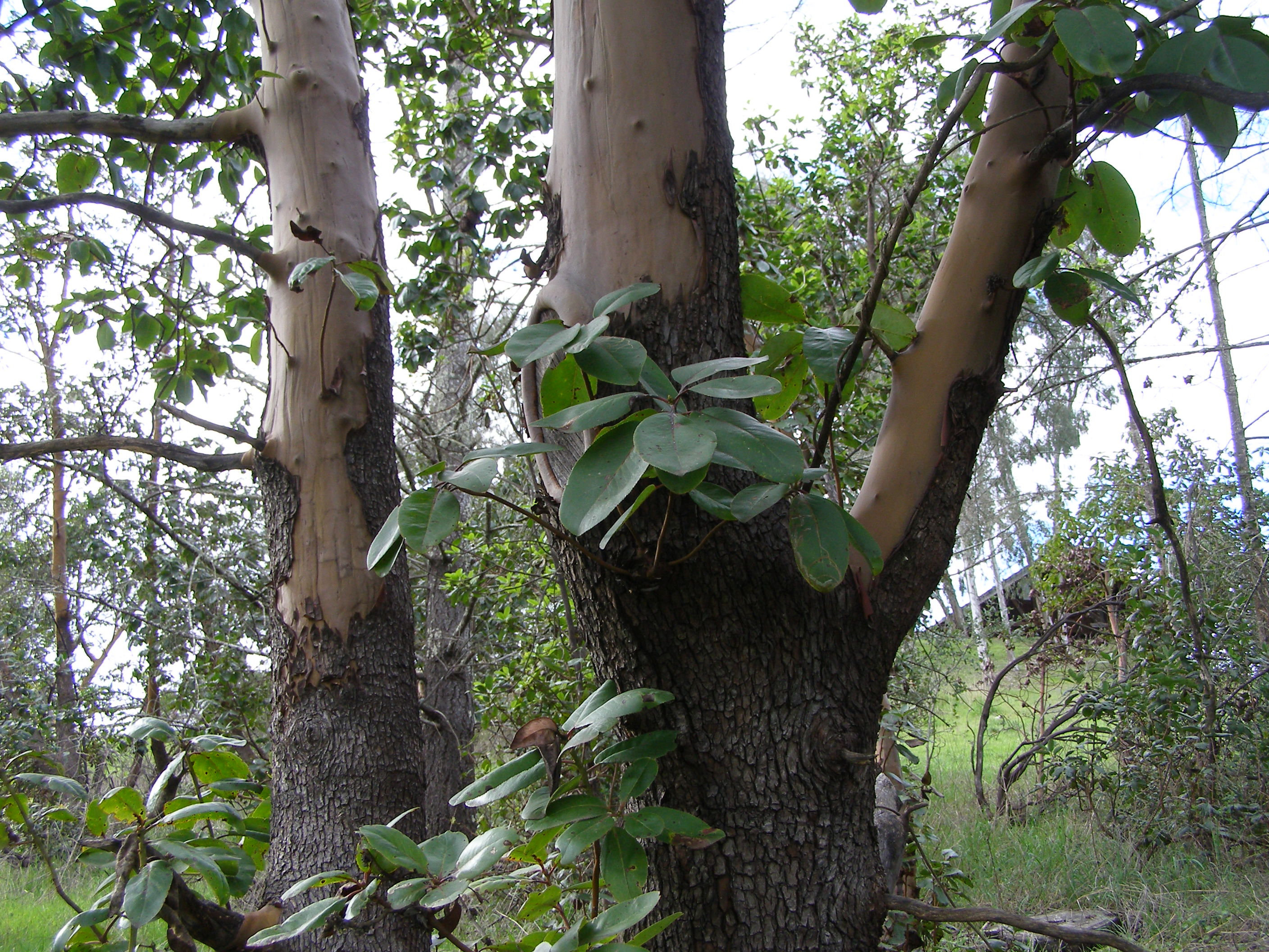 Arbutus menziesii trunk.